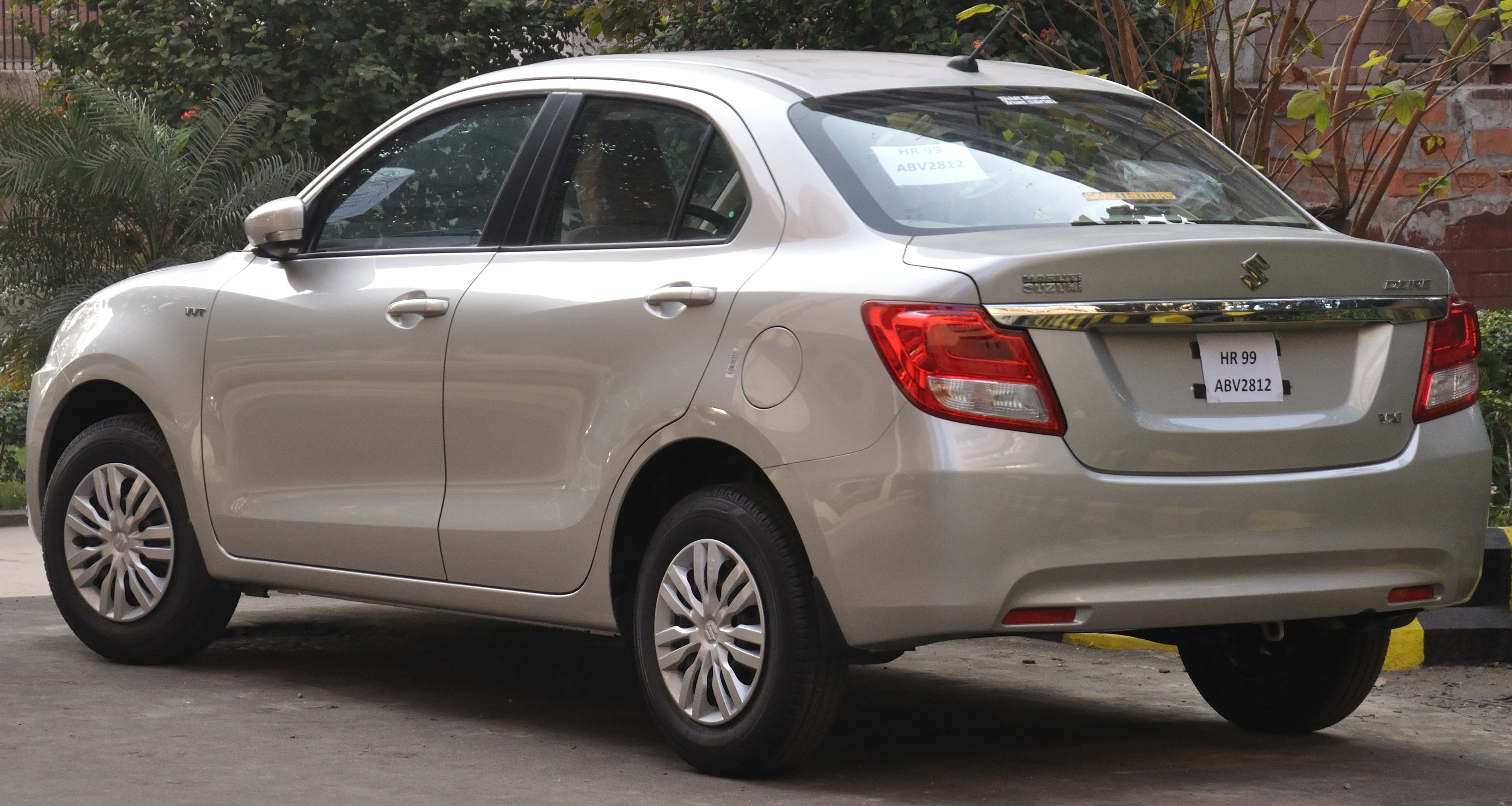 This photograph was taken in West Bengal.